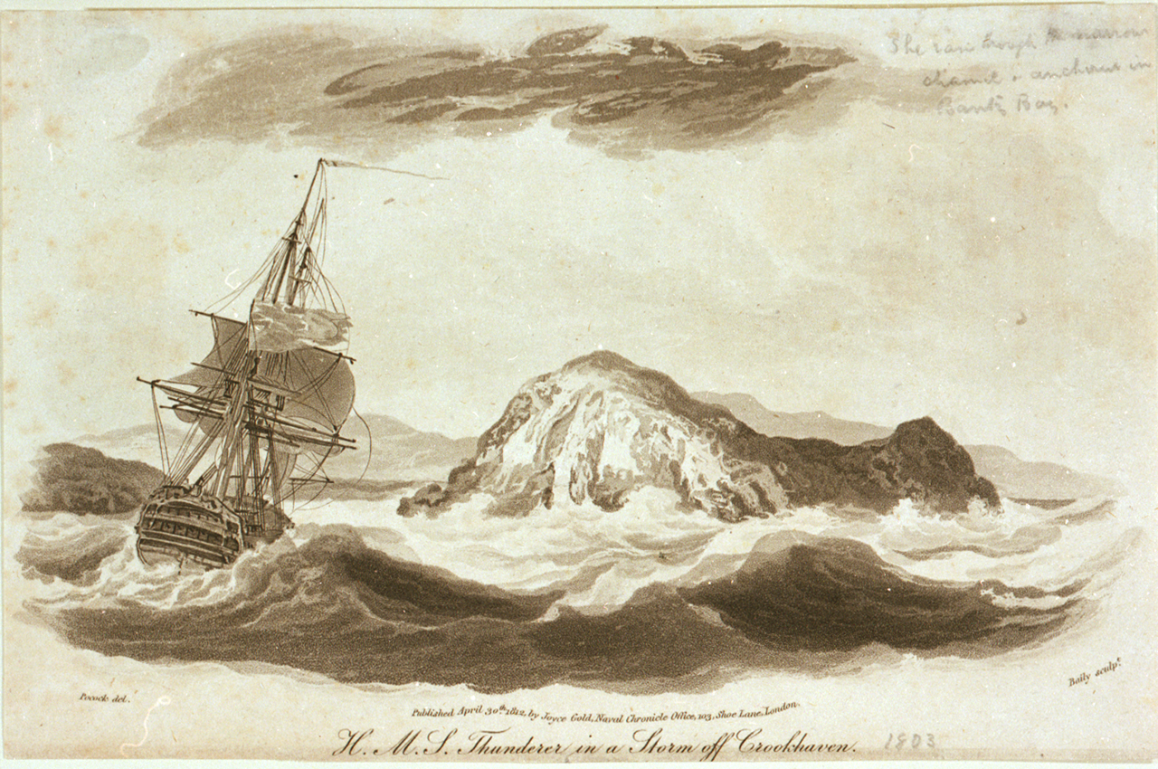 HMS Thunderer in a storm off Crookhaven; Vignette from the Naval Chronicle, 1812.